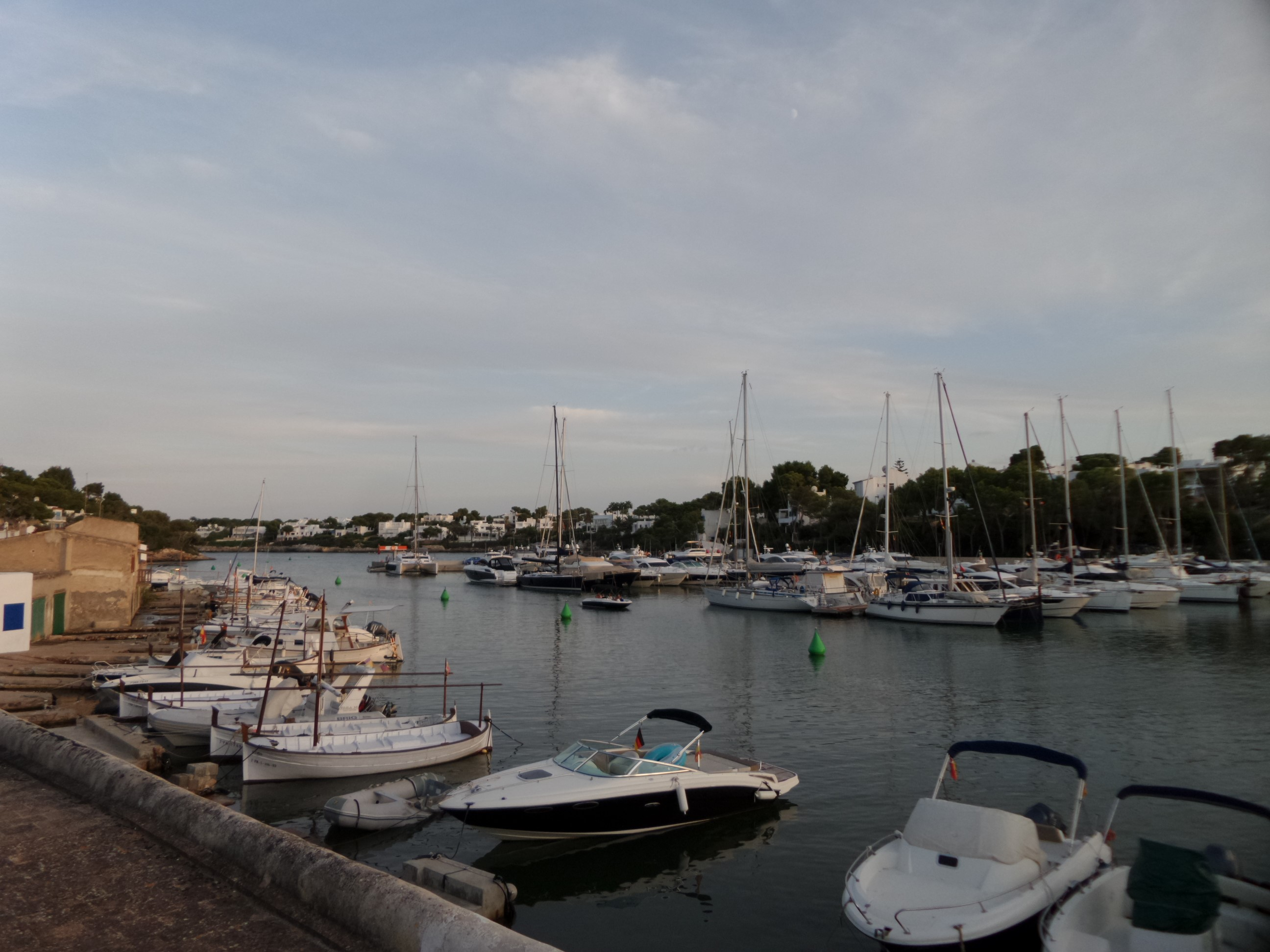 Cala Llonga (Bay) in Cala d’Or (Village) Аҧсшәа: Cala Llonga (Cala) en Cala d’Or (Municipio)